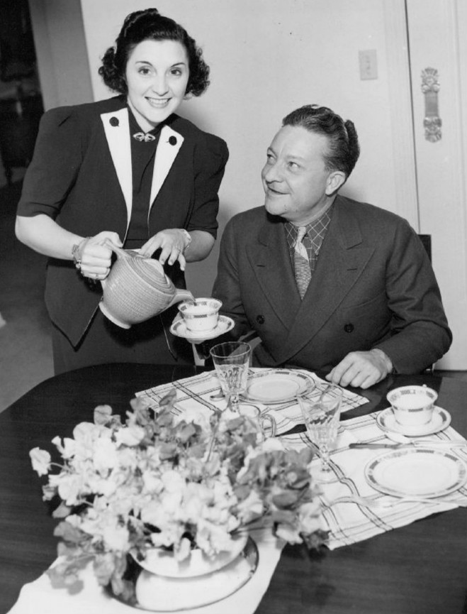 Publicity photo of radio actor Charles Correll (Amos 'n' Andy) and his wife, Alyce.